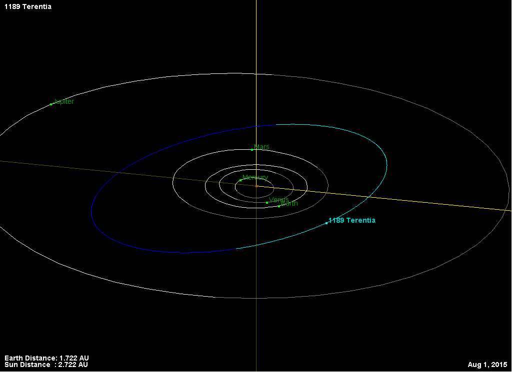 1189 Terentia orbit and his position on 01 Aug 2015 (NASA Orbit Viewer applet)